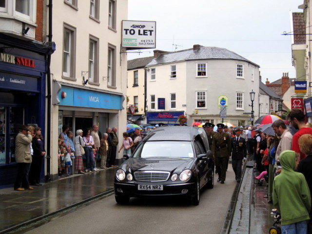 Harry Patch's funeral procession The funeral procession of Harry Patch 'the last British Tommy' as it makes its way up Wells High Street.